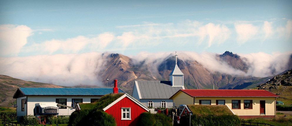 Bakkagerði in Borgarfjörður eystri, North East Iceland image by varp July 2006